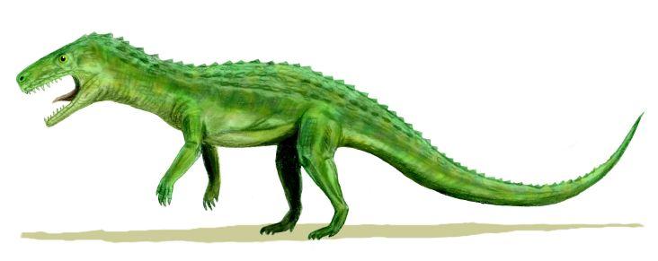 Euparkeria capensis, from the Early Triassic of South Africa, pencil drawing based on Caroll, 1988